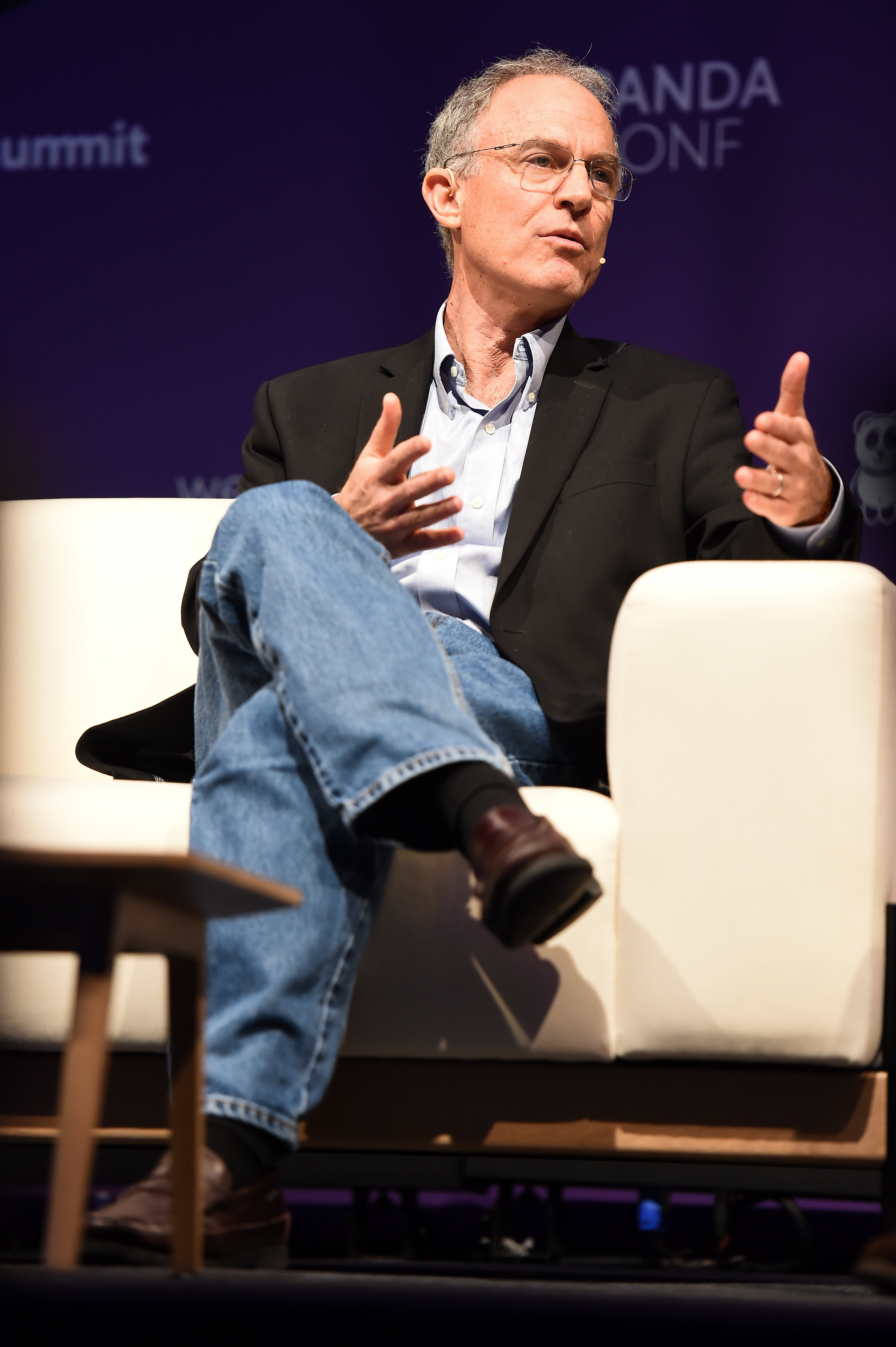 6 November 2018; Stephen Kaufer, CEO, TripAdvisor on PandaConf Stage during the opening day of Web Summit 2018 at the Altice Arena in Lisbon, Portugal. Photo by Eóin Noonan/Web Summit via Sportsfile